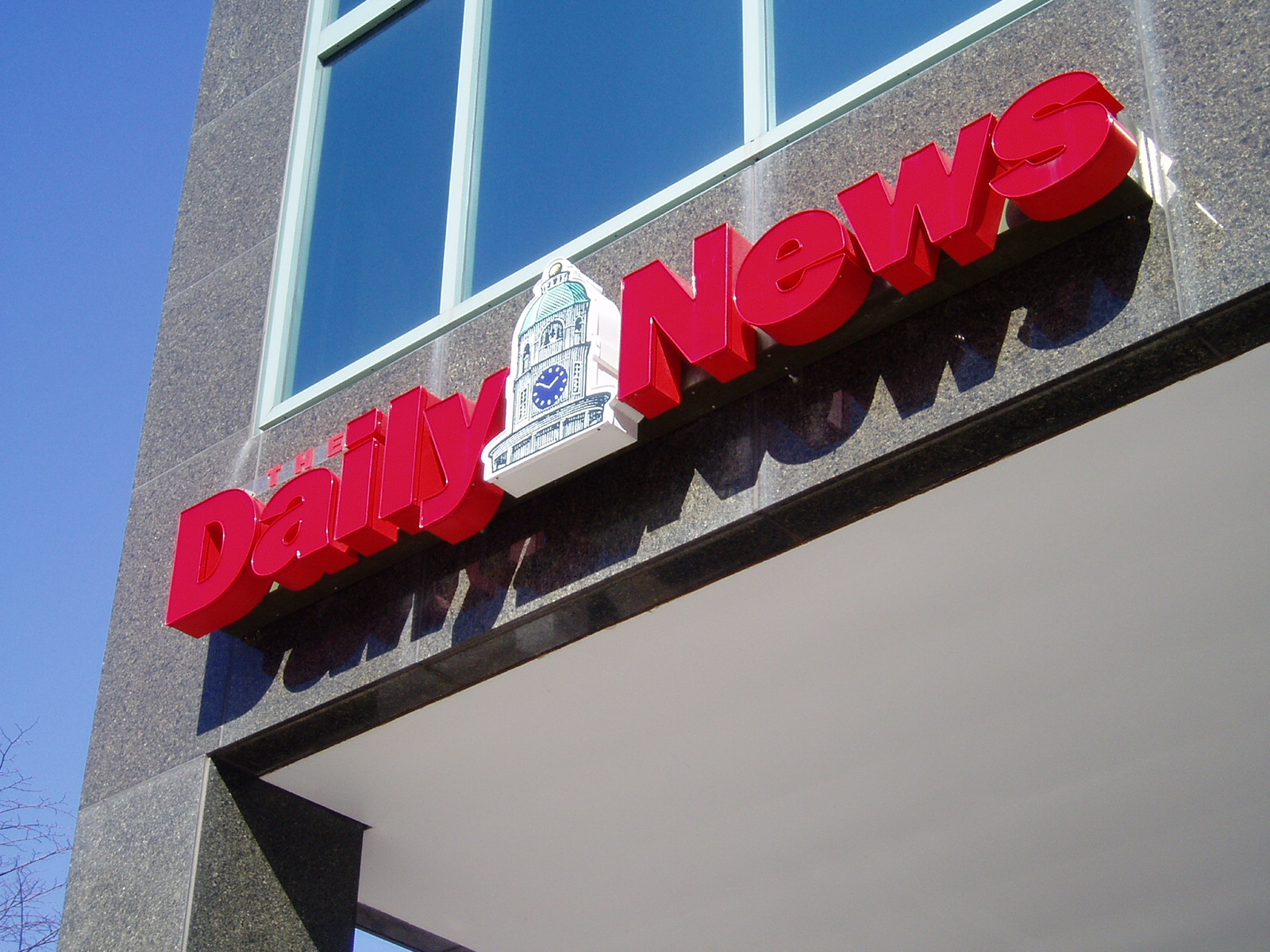 Daily News building (Halifax NS, April 1 2007)